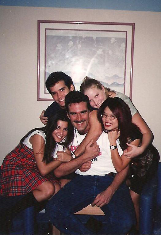 Alex Escarno (centre) with (behind, left to right) Rachel Campos, Judd Winick, Cory Murphy and Pam Ling, who were cast of the REAL WORLD-SAN FRANCISCO at Mercy Hospital, Miami, Florida, taken by me.